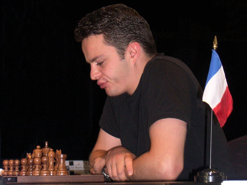 Etienne Bacrot 37ème Festival international d’Échecs de Bienne (2004)